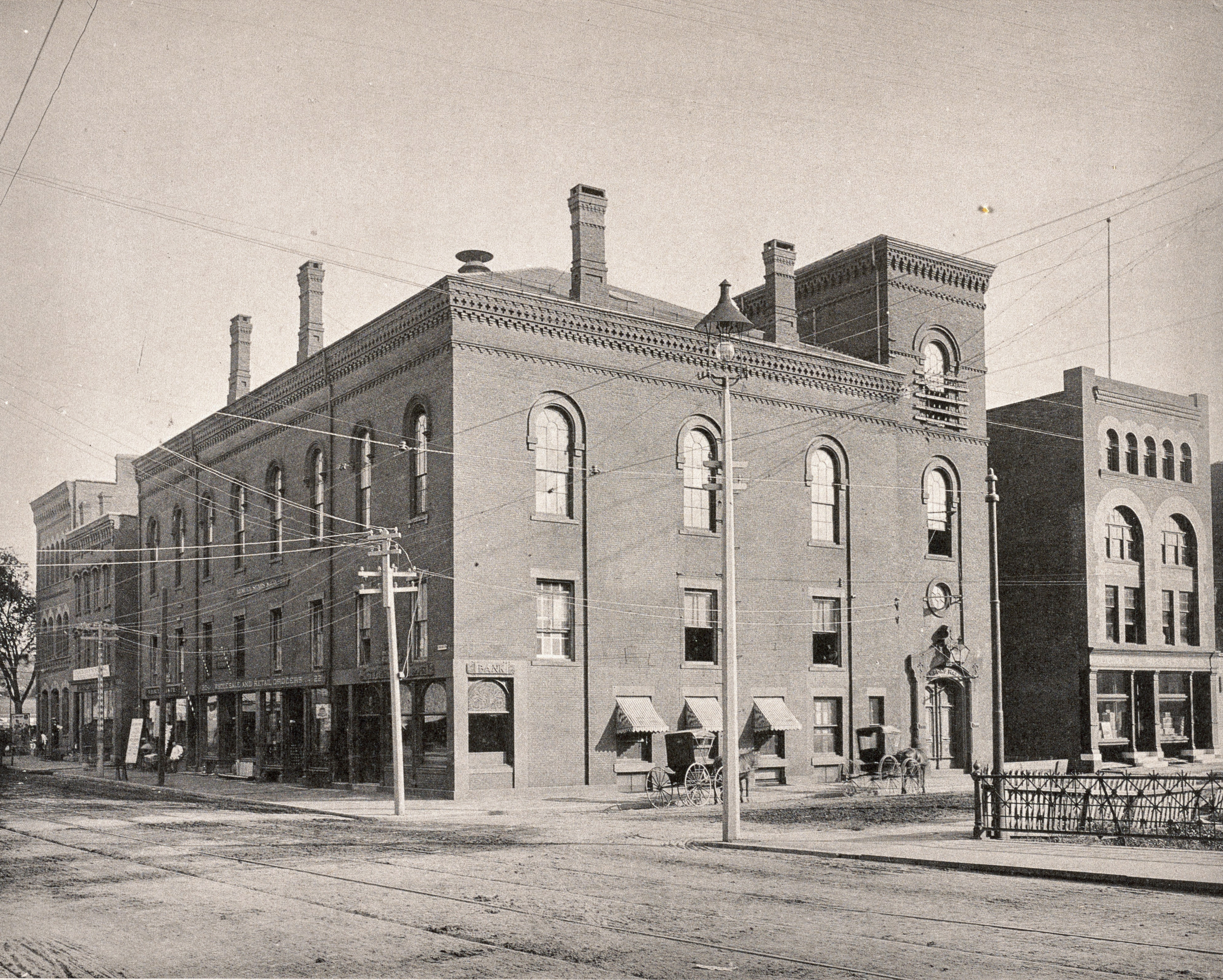 Parsons Hall, with the Sears building visible to its right prior to expansion. Once home to a theatrical hall in its upper floors, the first two floors of still stand today on the corner of Race and Dwight Streets today. It was in Parsons Hall that the famous vaudevillian Eva Tanguay got her start as an amateur singer and dancer.